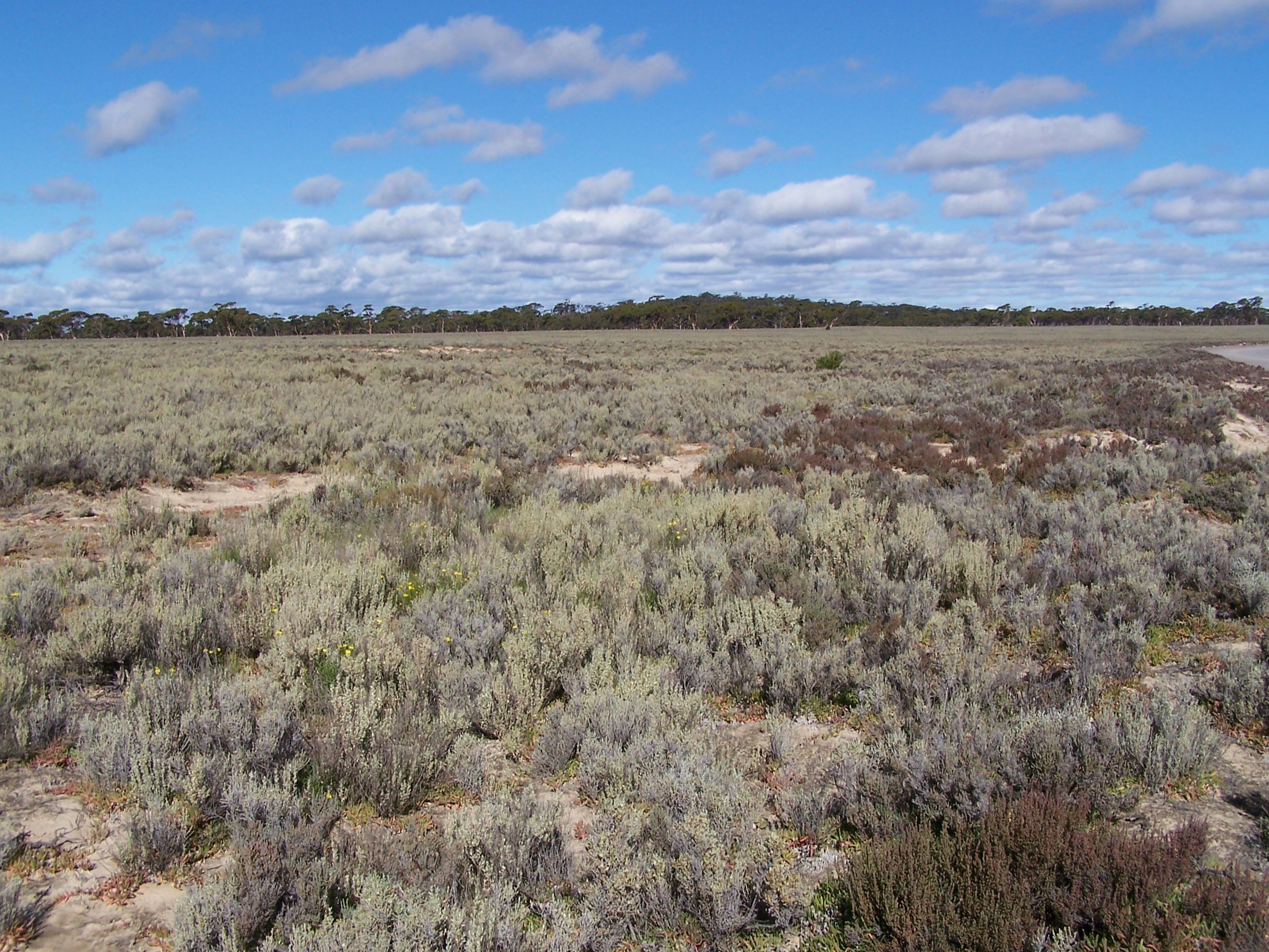 Lake Johnston looking from on the lake across salt bush towards the malle scrub - Western Australia.